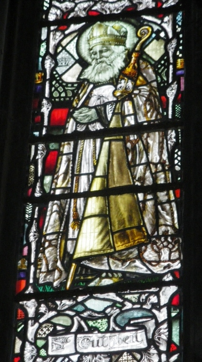 Detail from Christopher Whall window in Gloucester Cathedral.